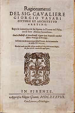 Giorgio Vasari (1511-1574) - Ragionamenti del sig. cavalieri Giorgio Vasari... Published in Firenze by Filippo Giunti, in 1588. São Paulo Museum of Art Library collection, Brazil.